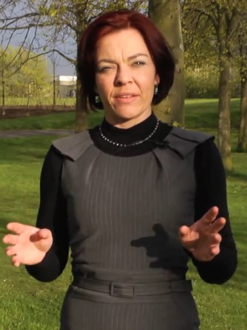 Northern Irish politician Clare Bailey of the Green Party in 2011.